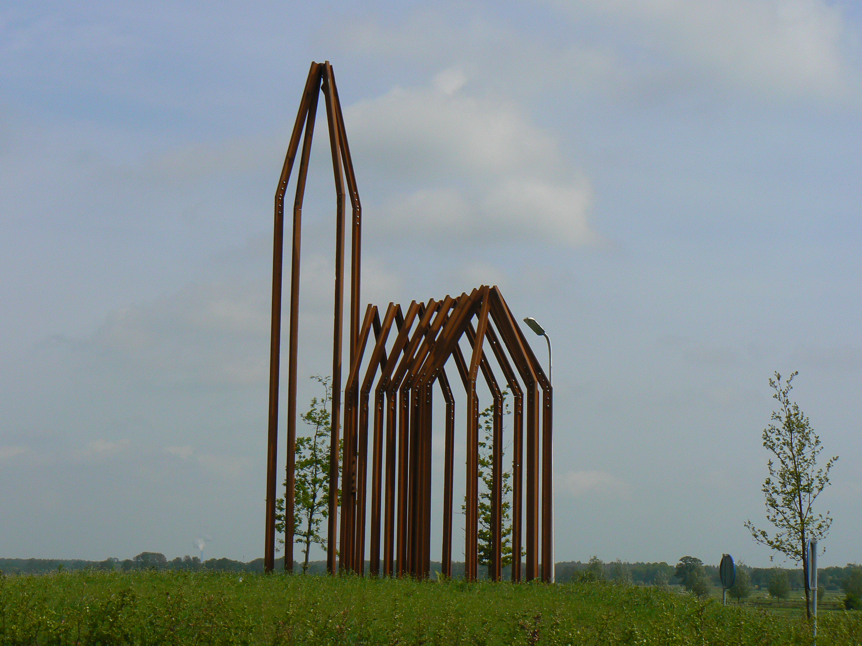 Sculpture De kerk op de rotonde (2007/8) in Hoogeveen/The Netherlands